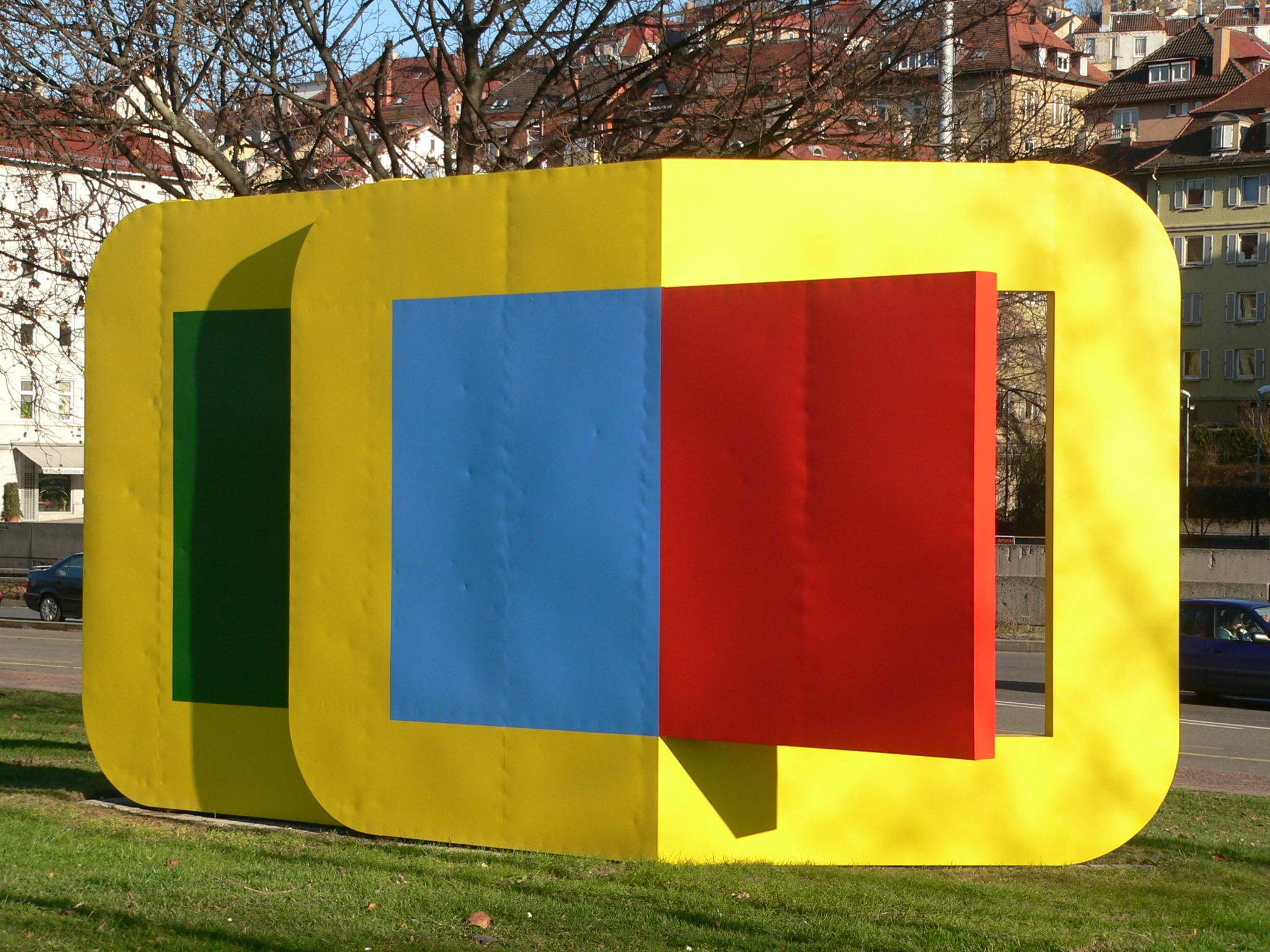 "Farbraumobjekt" by Karl-Georg Pfahler, steel, 1977. Stuttgart